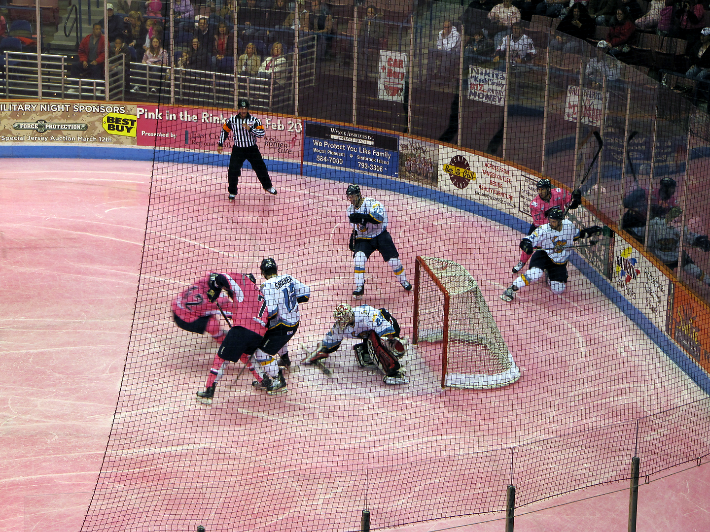 South Carolina Stingrays play on "Pink in the Rink" night in support of the Susan G. Komen Foundation.